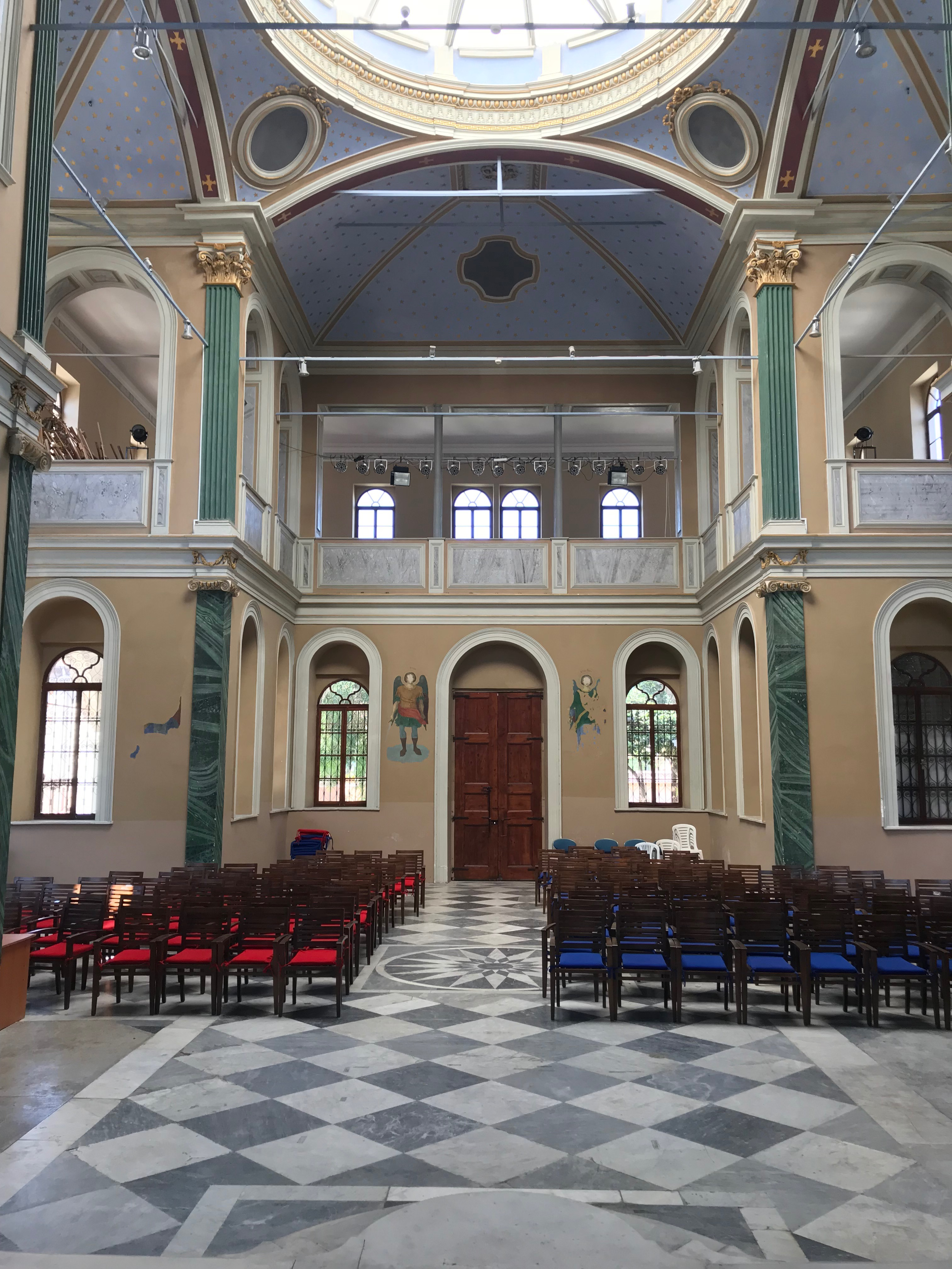 Saint Voukolos Church in İzmir, Turkey.